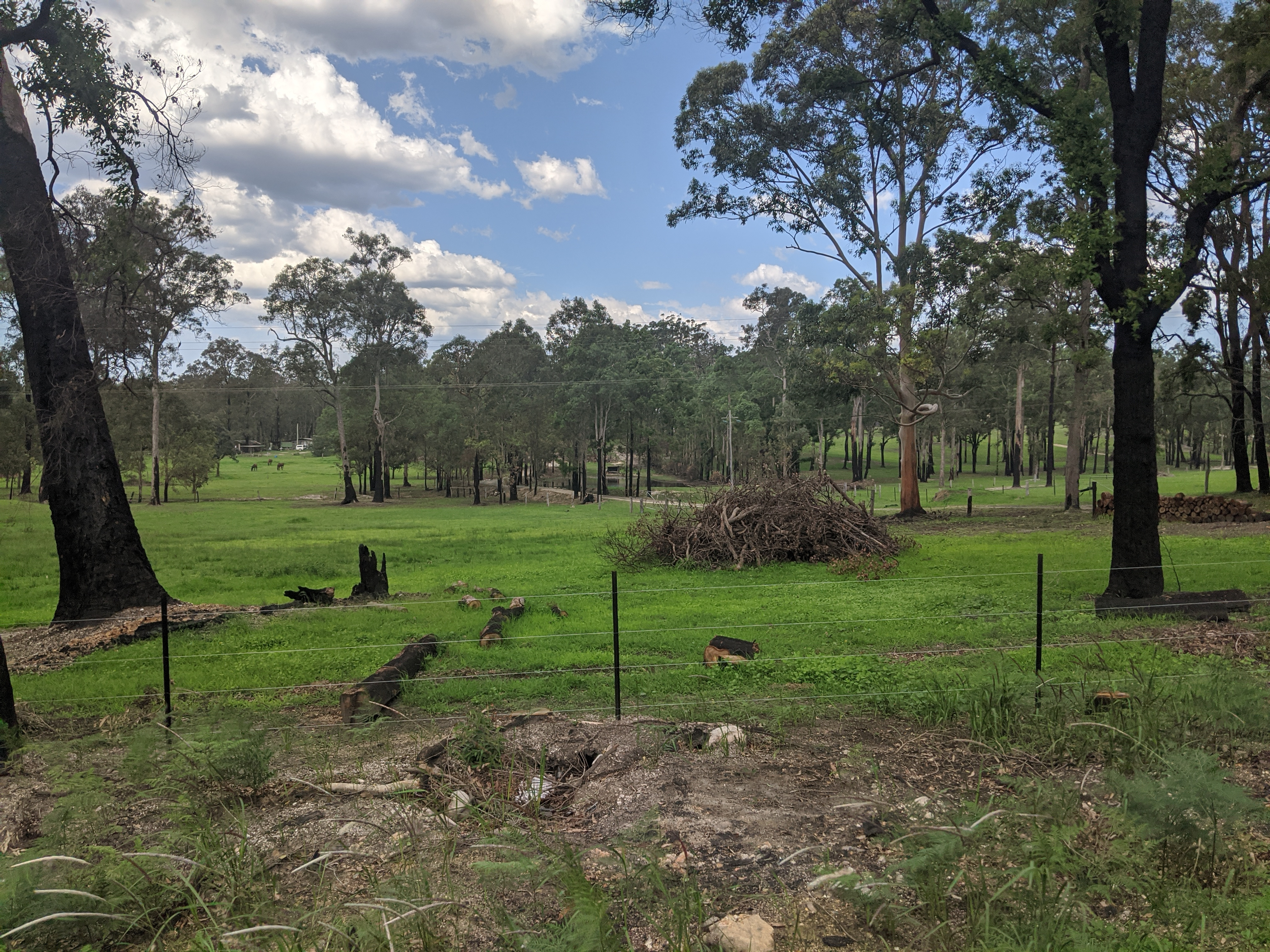 Jeremadra, New South Wales from highway, 2020